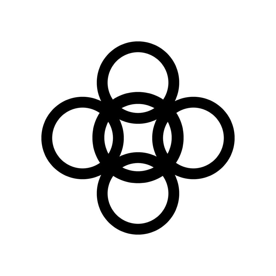 Alesso Logo